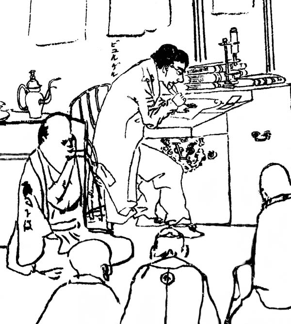 detail of pen and ink drawing depicting Heinrich Burger amidst japanese in Edo